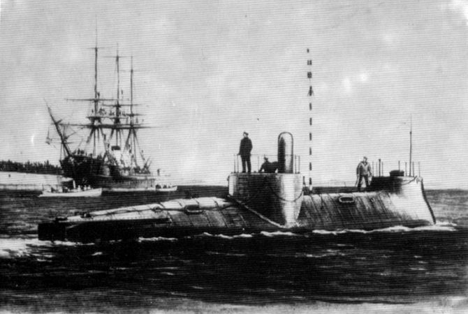 Alexandrovsky submarine (photograph)